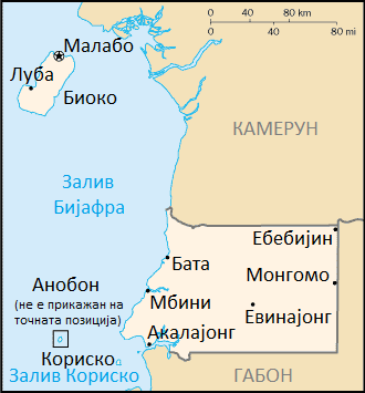 Map of Equatorial Guinea in Macedonian.